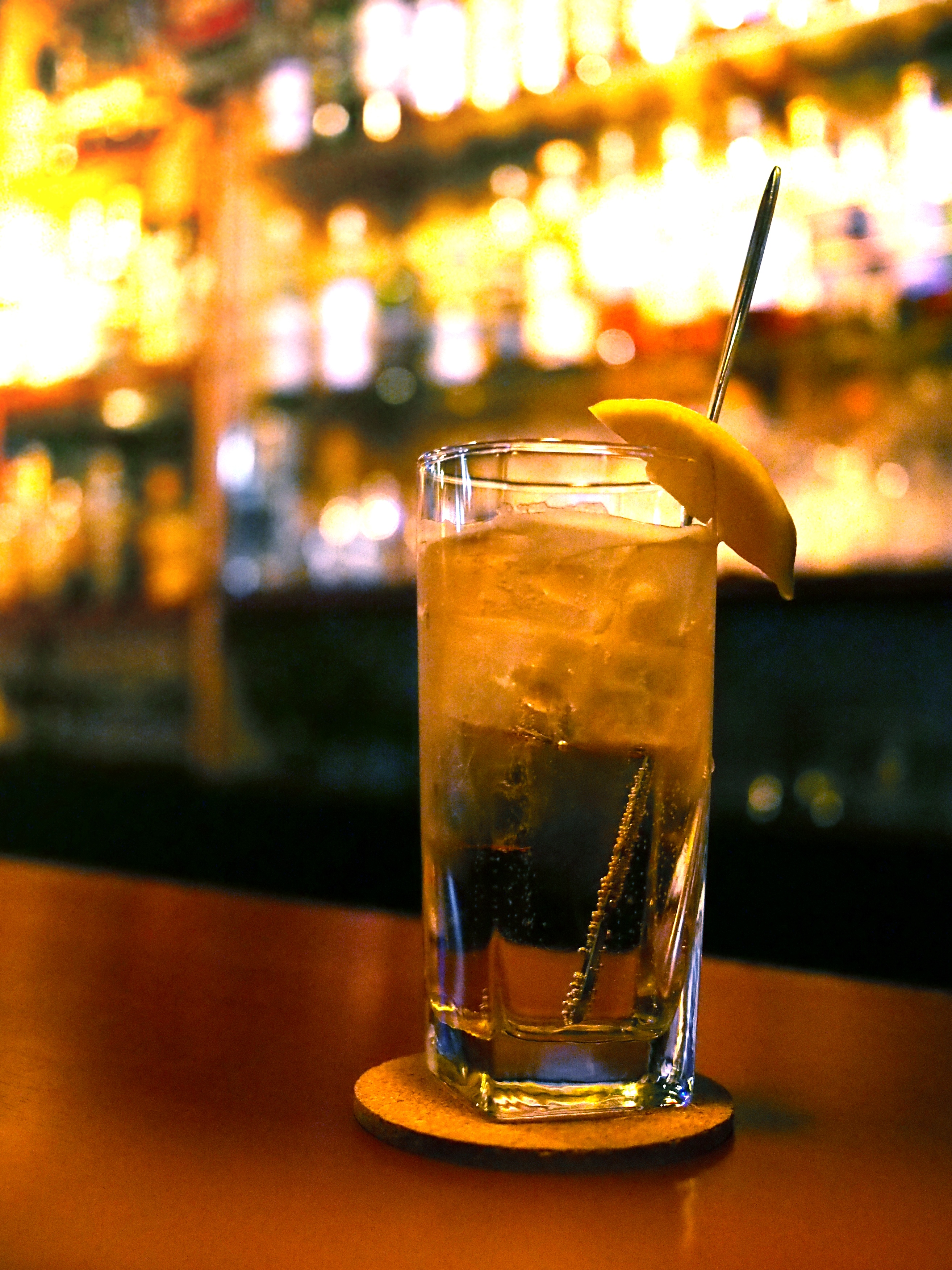 A photo of Whisky soda(high ball)